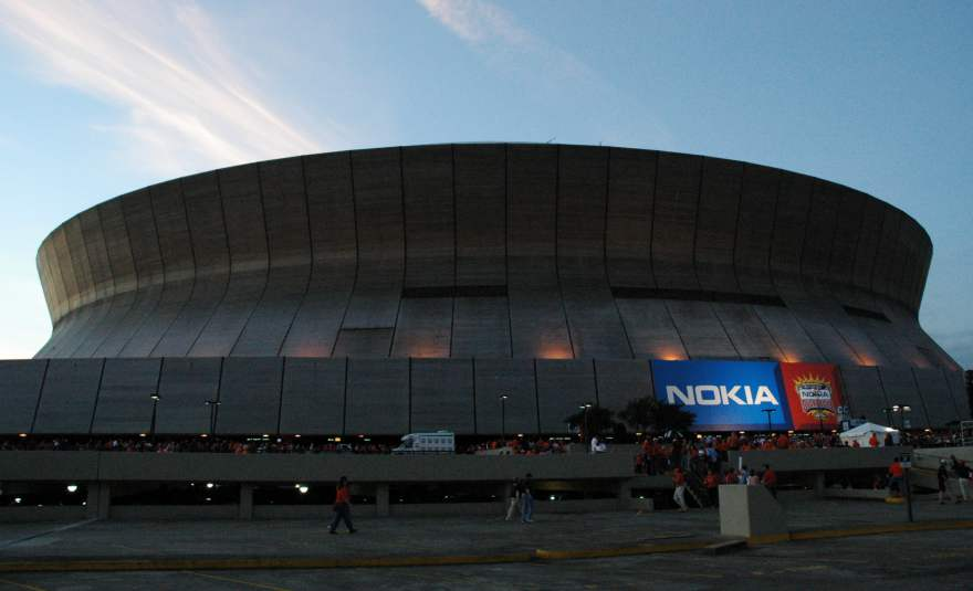 Louisiana Superdome in New Orleans at sunset from the south, taken before the Sugar Bowl on January 3, 2005 by J. Glover (AUTiger).